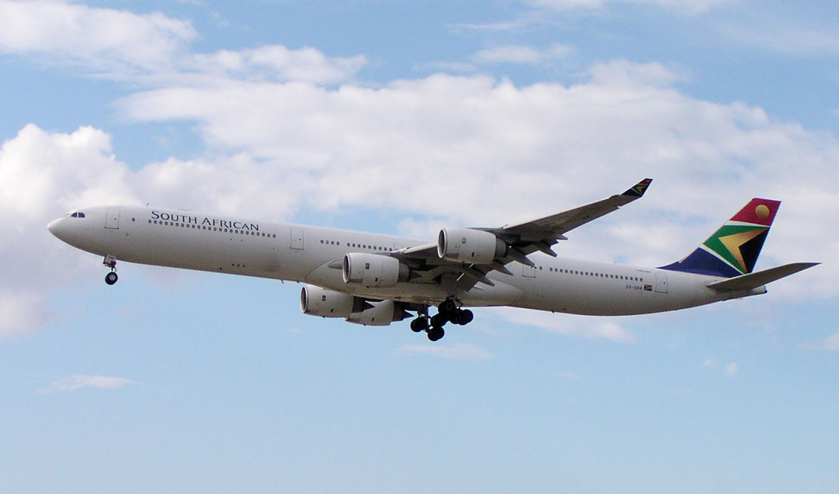 South African Airways A340-600 (ZS-SNE) in Frankfurt (EDDF)